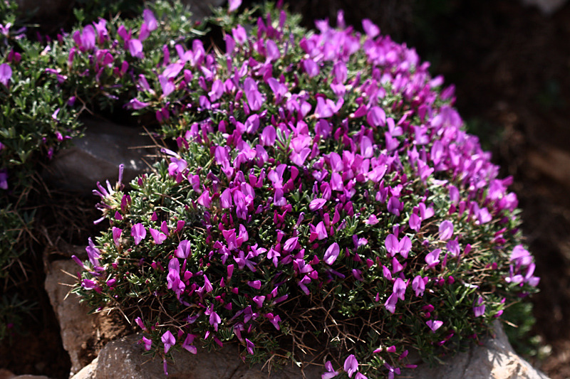 Onobrychis cornuta, Plants of Israel